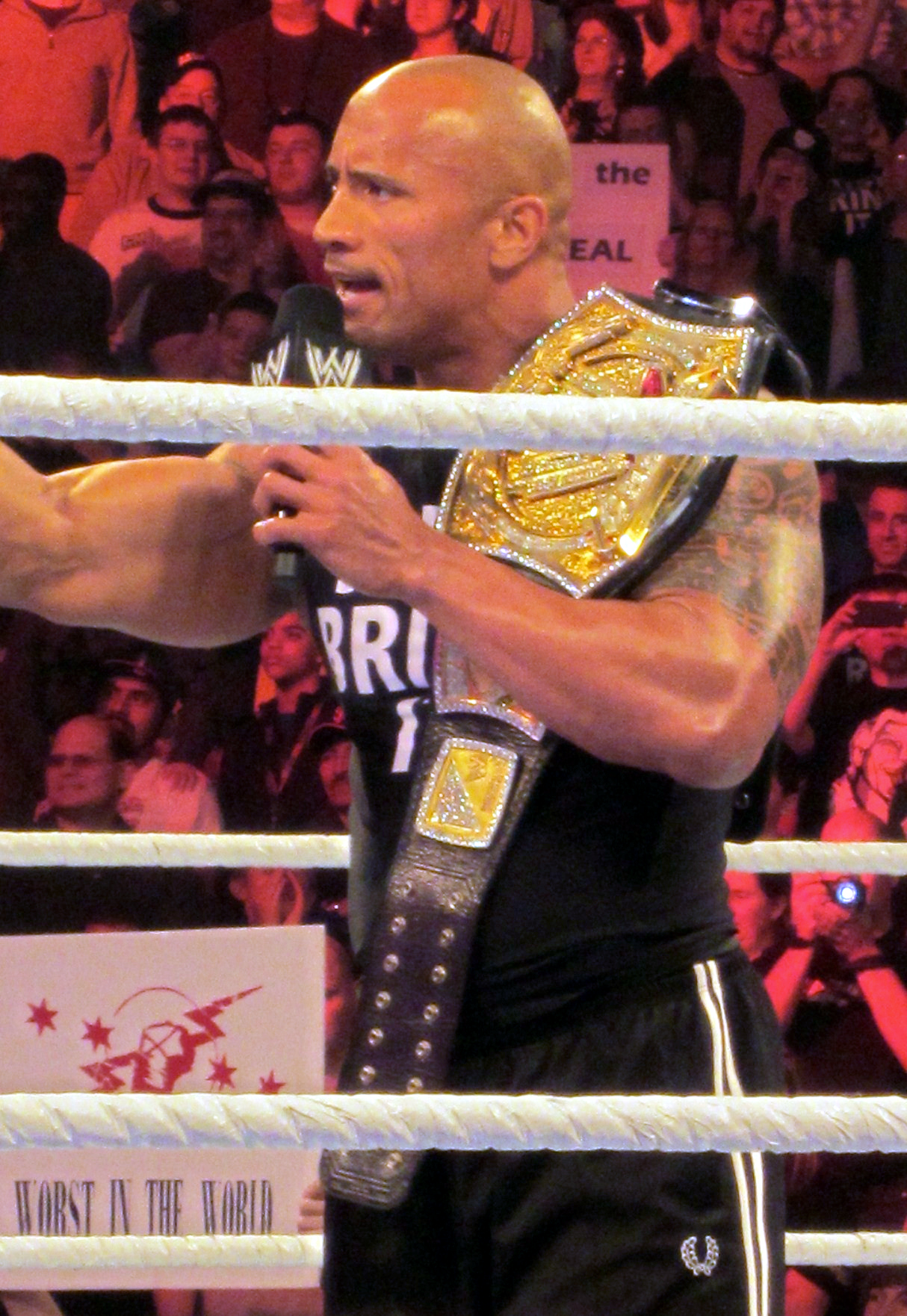 The Rock with his WWE Championship in a WWE Raw show in February 2013